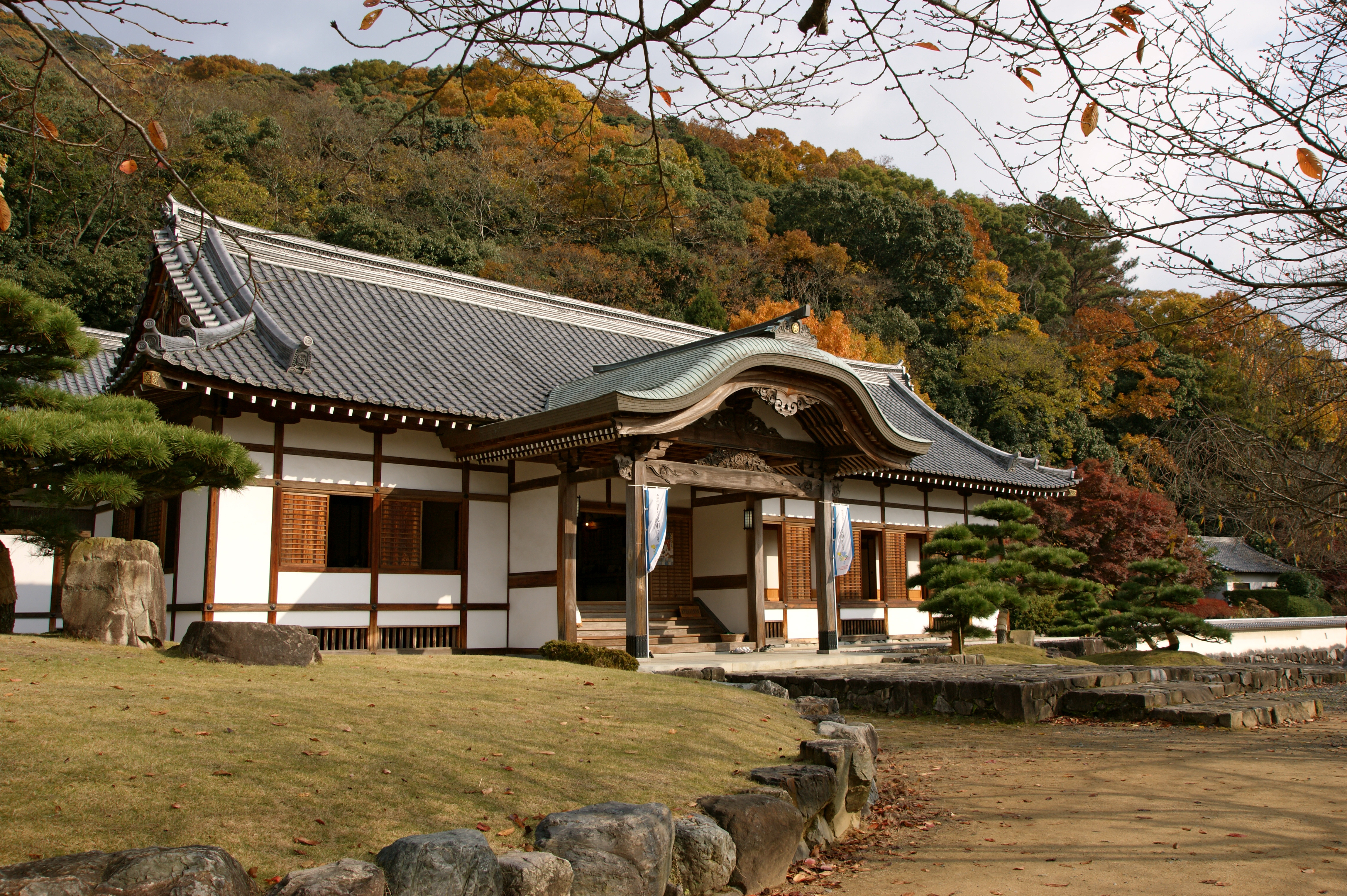 Tatsuno castle, Tatsuno, Hyogo prefecture, Japan